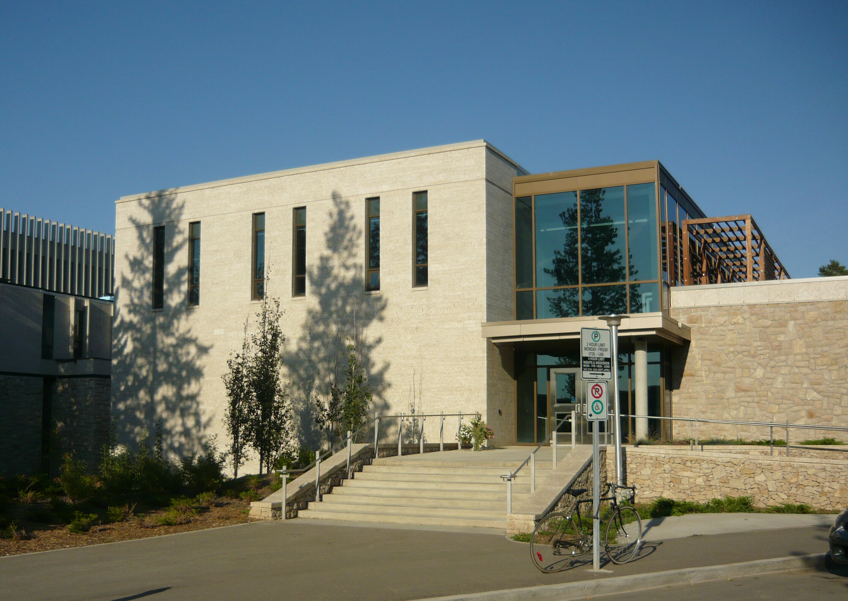 College of Law (2008 addition as seen from Campus Drive), University of Saskatchewan, Saskatoon, Saskatchewan, Canada